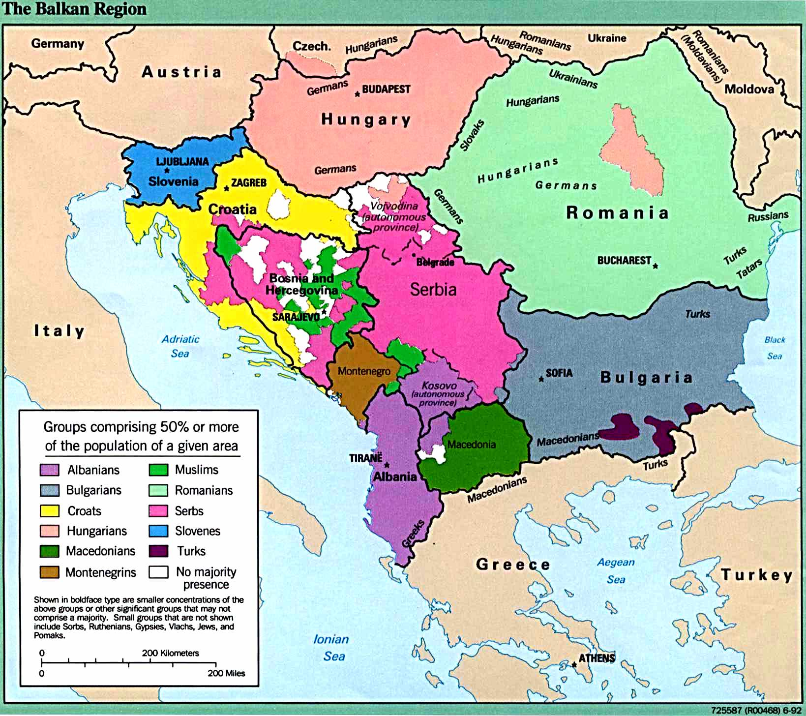 Etnic map of the Balkans in 1992.